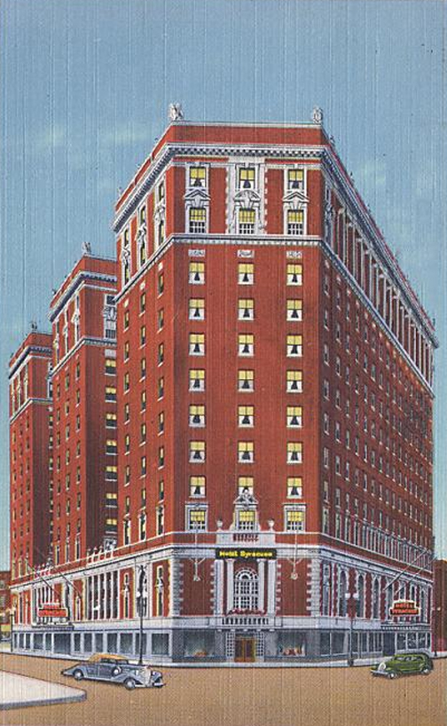 Hotel Syracuse in Syracuse, New York. Designed by George B. Post & Sons, built 1924.